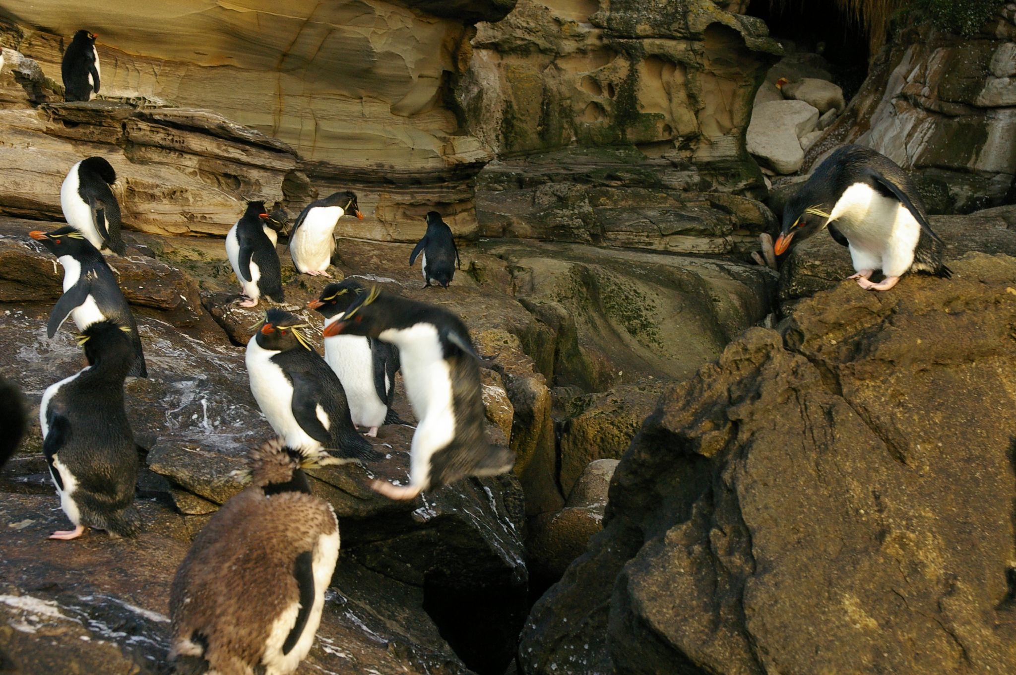 (Southern) Rockhopper Penguins (Eudyptes chrysocome), Saunders Island, Falkland Islands